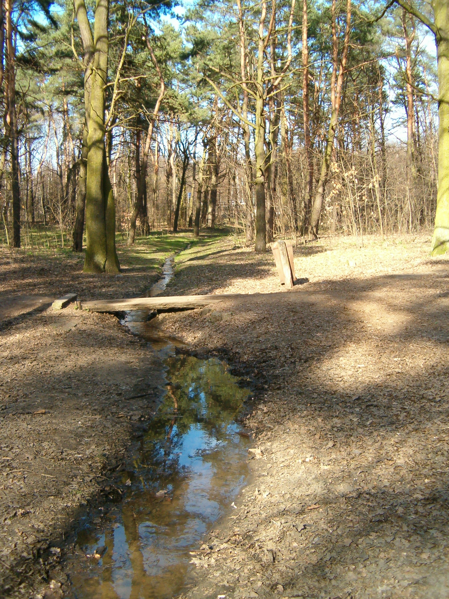 Bielański Stream in Lindego Forest in spring